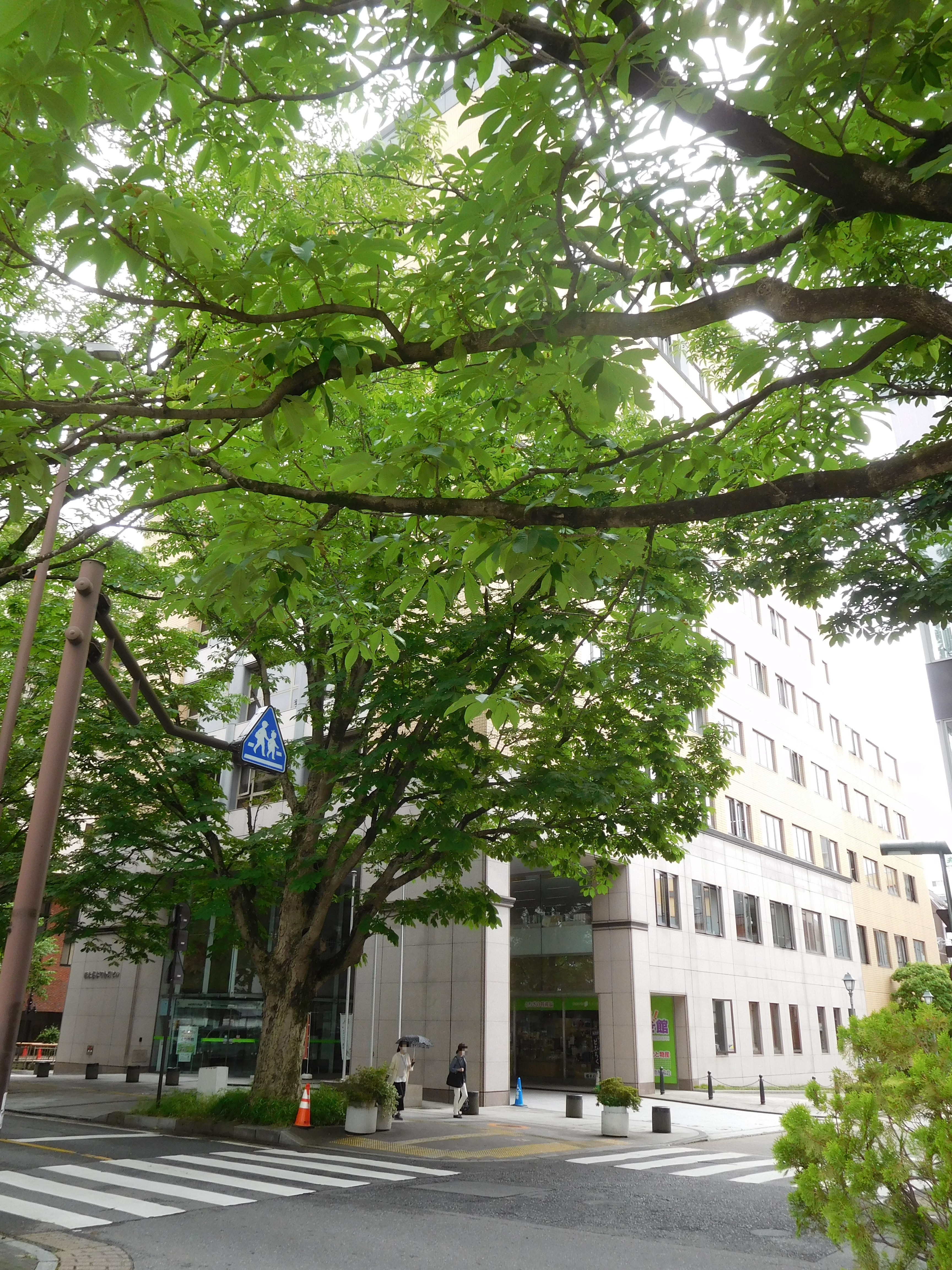 This is Tochigi Prefecture Honcho Joint Building (or Tochigi prefectural government south annex) in Utsunomiya, Tochigi, Japan. It has Tochigi prefecture board of education.